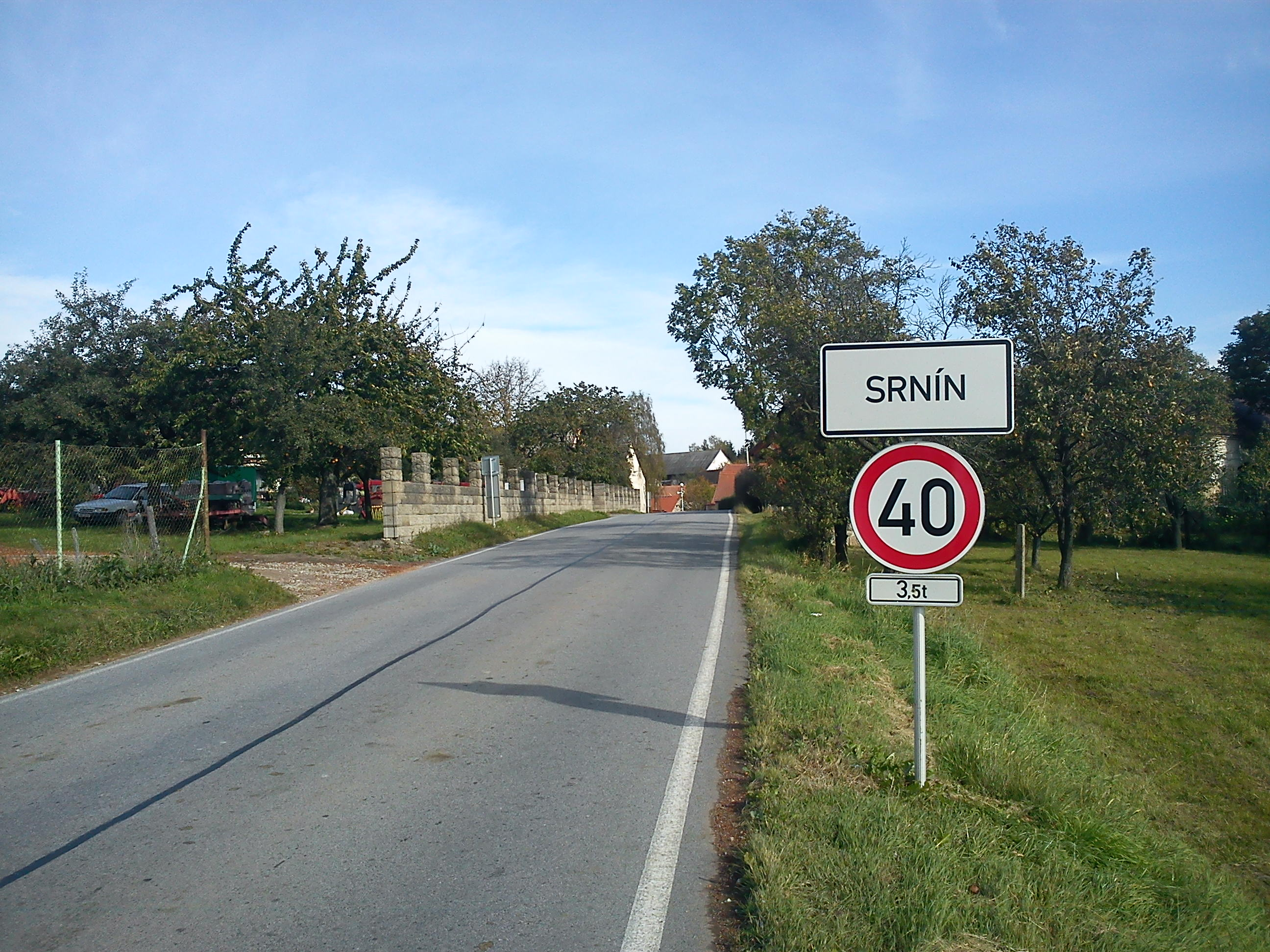 Municipal border sign of the village of Srnín, Český Krumlov District, South Bohemian Region, Czech Republic.